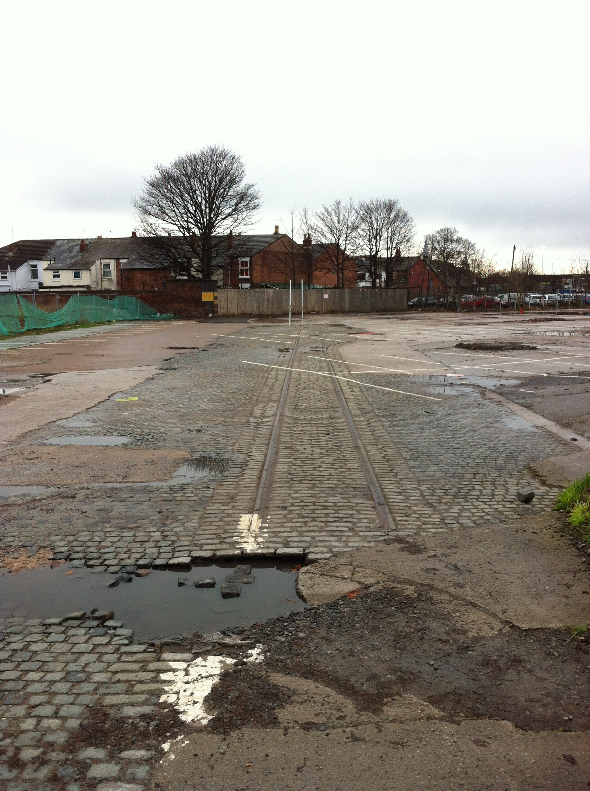 Part of the former depot in Crewe Street